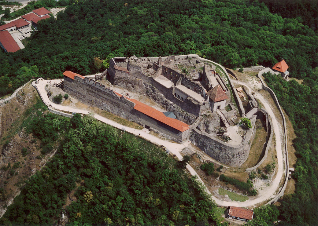 Mountain Fastness - Visegrád - Hungary - Europe